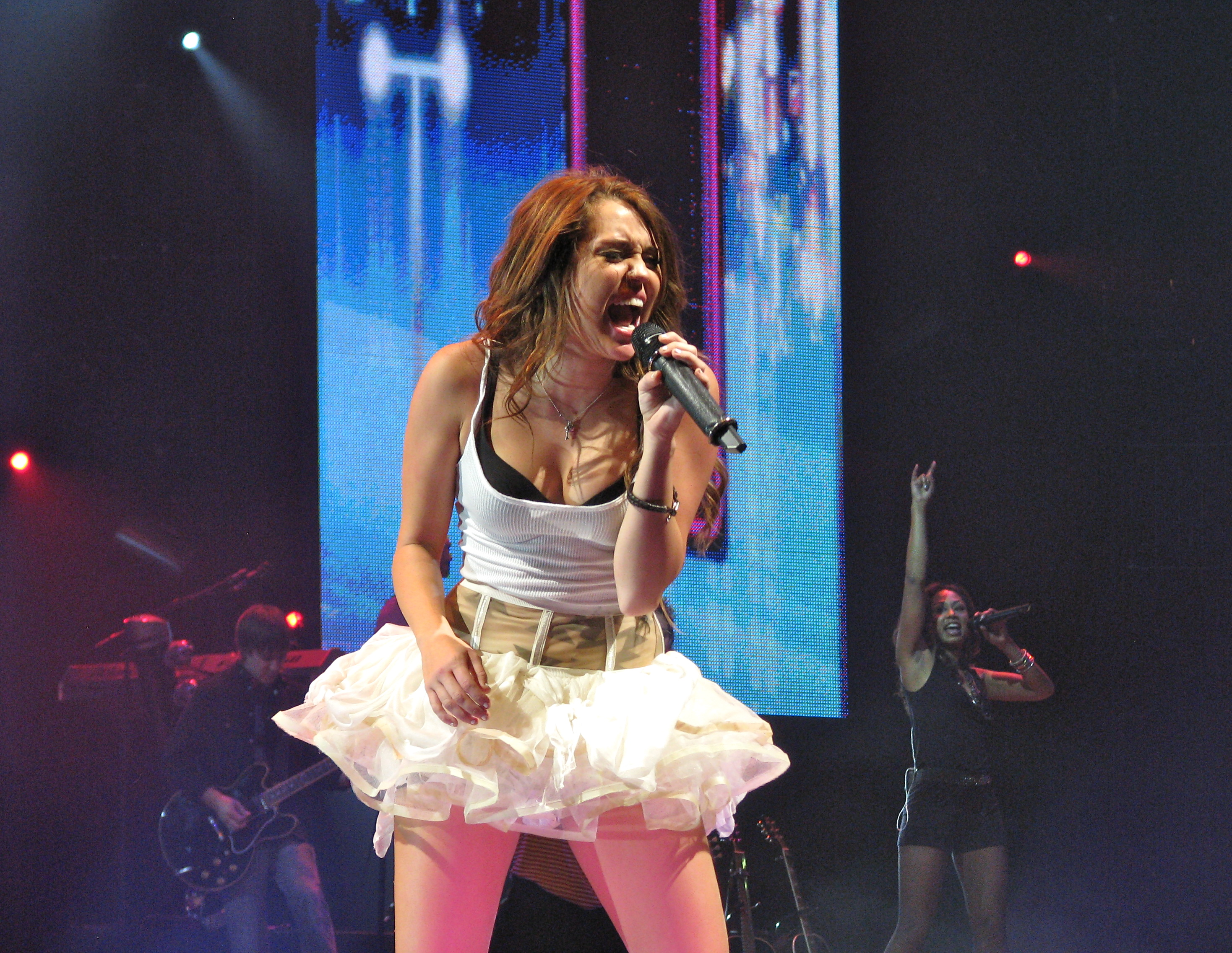 A teen singing.